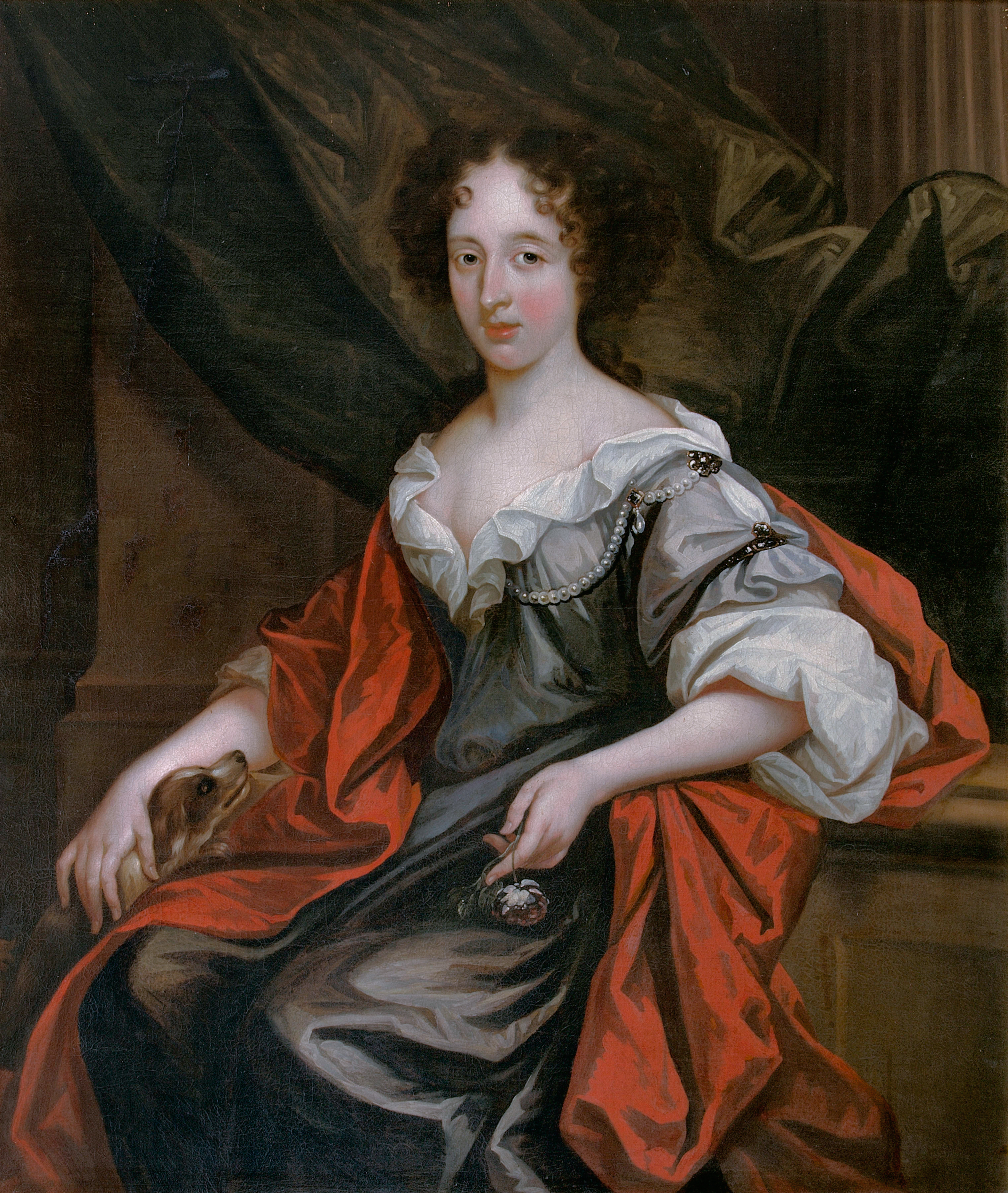 Anne Villiers ( -1688) oil on canvas 120 x 99 cm 1678 - 1785 DVS00027